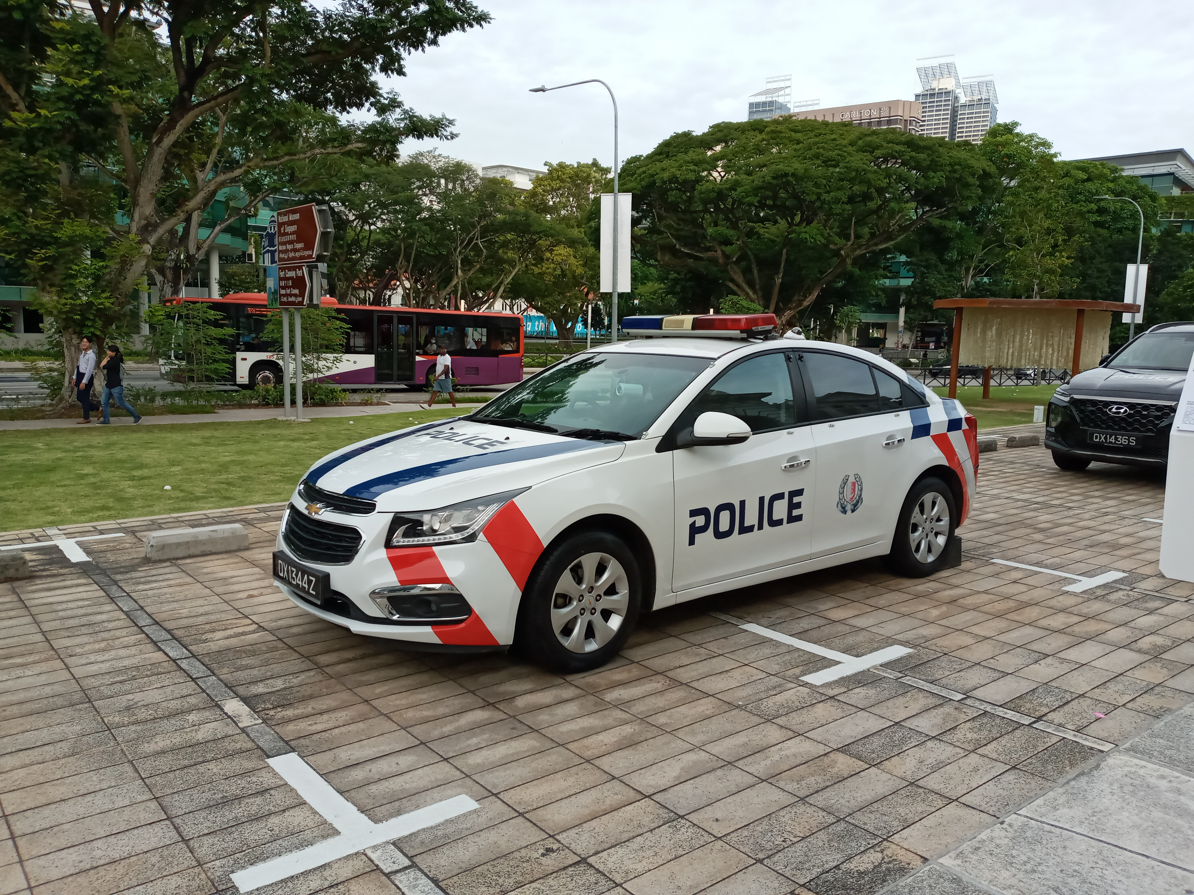 A Chevrolet Cruze NB 1.6 wearing the current (2020) SPF livery